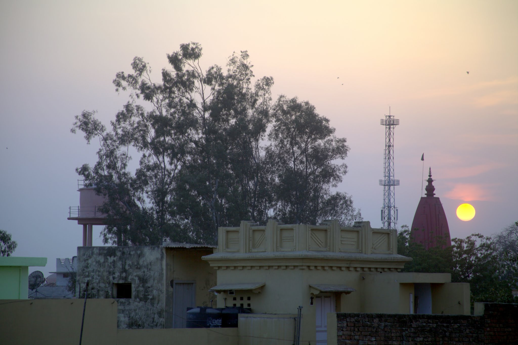 Cell tower, Hanuman tilla & sunset